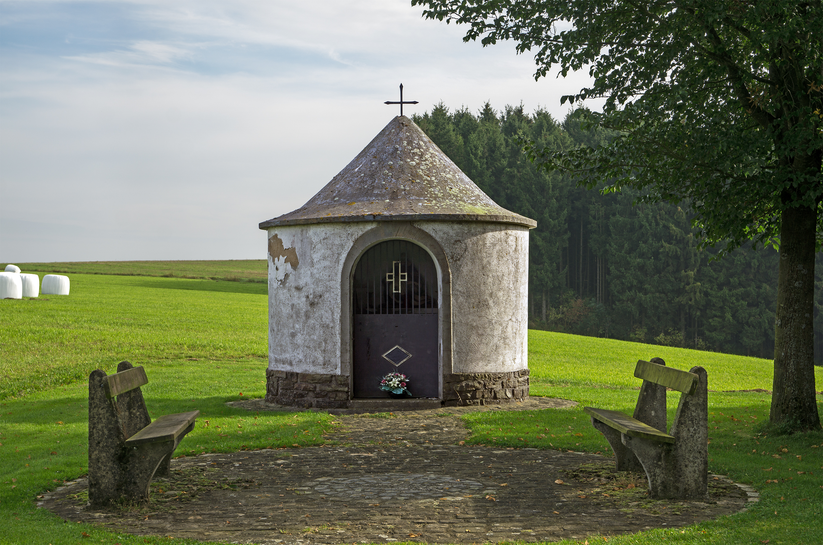 Wayside chapel in Lentzweiler